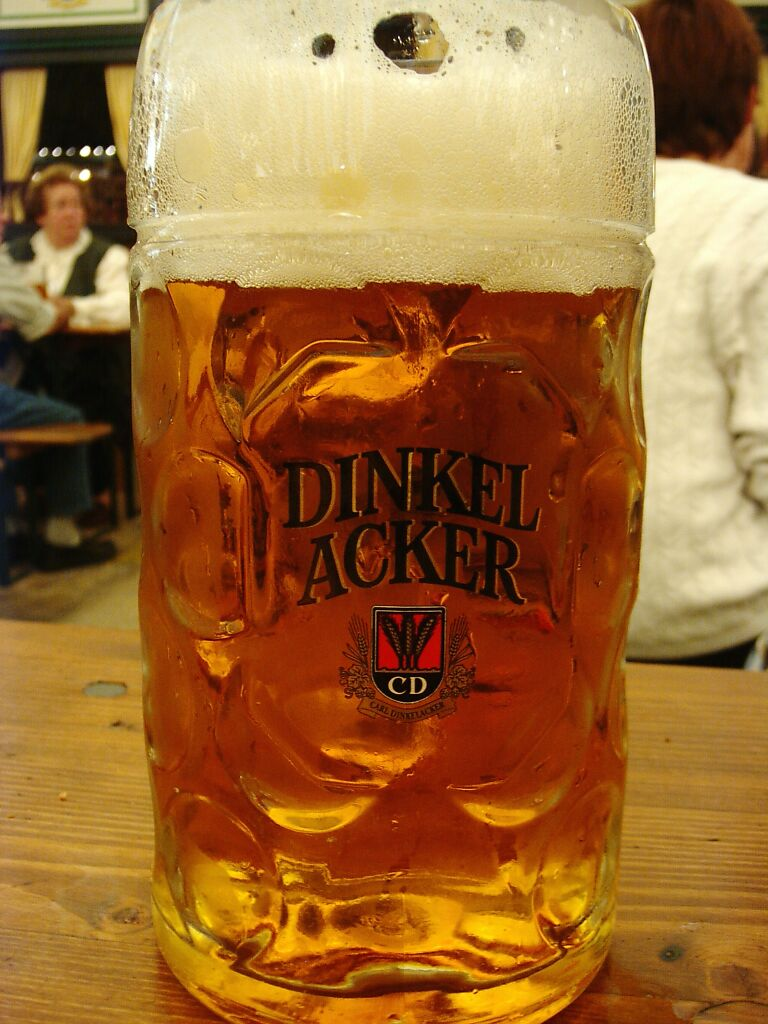 Stuttgart, Germany: Mug of beer at the Cannstatter Wasen (Stuttgart Beer Festival)